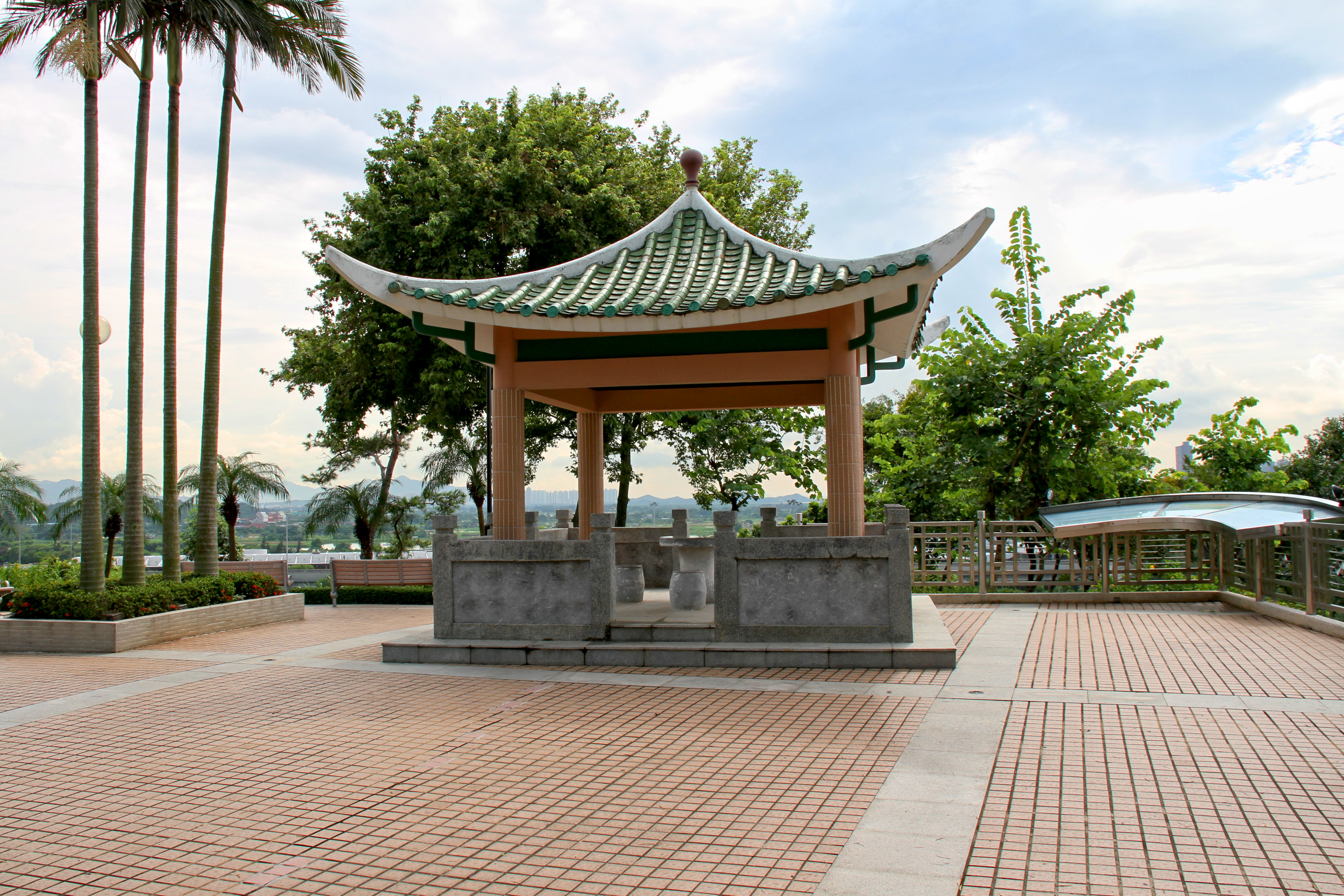 Lok Ma Chau Garden, Lok Ma Chau, Hong Kong